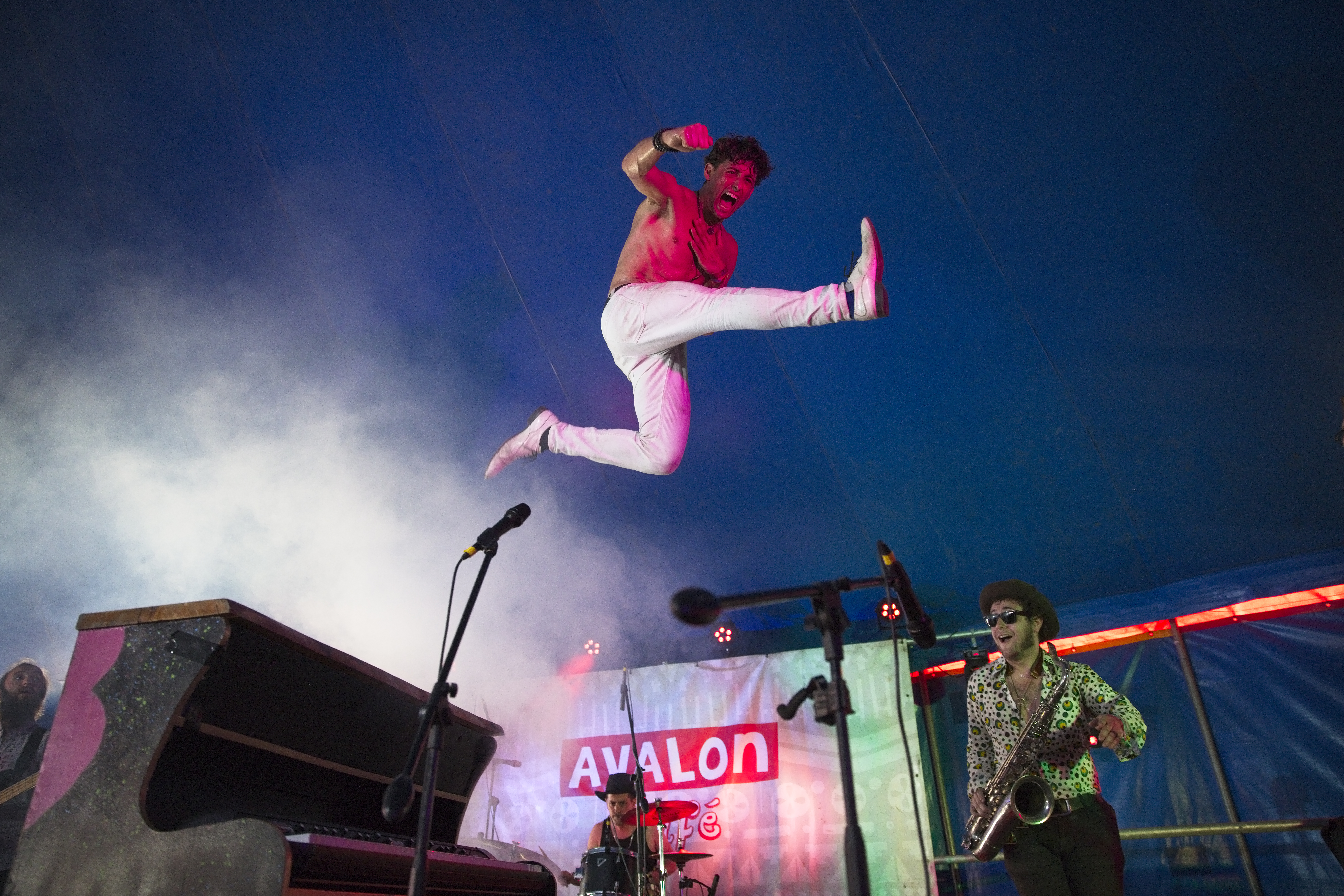 Tankus the Henge live on the Avalon Cafe stage at Glastonbury Festival 2017